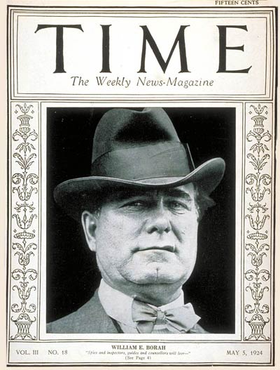 TIME Magazine Cover Featuring William Borah (5 May 1924)